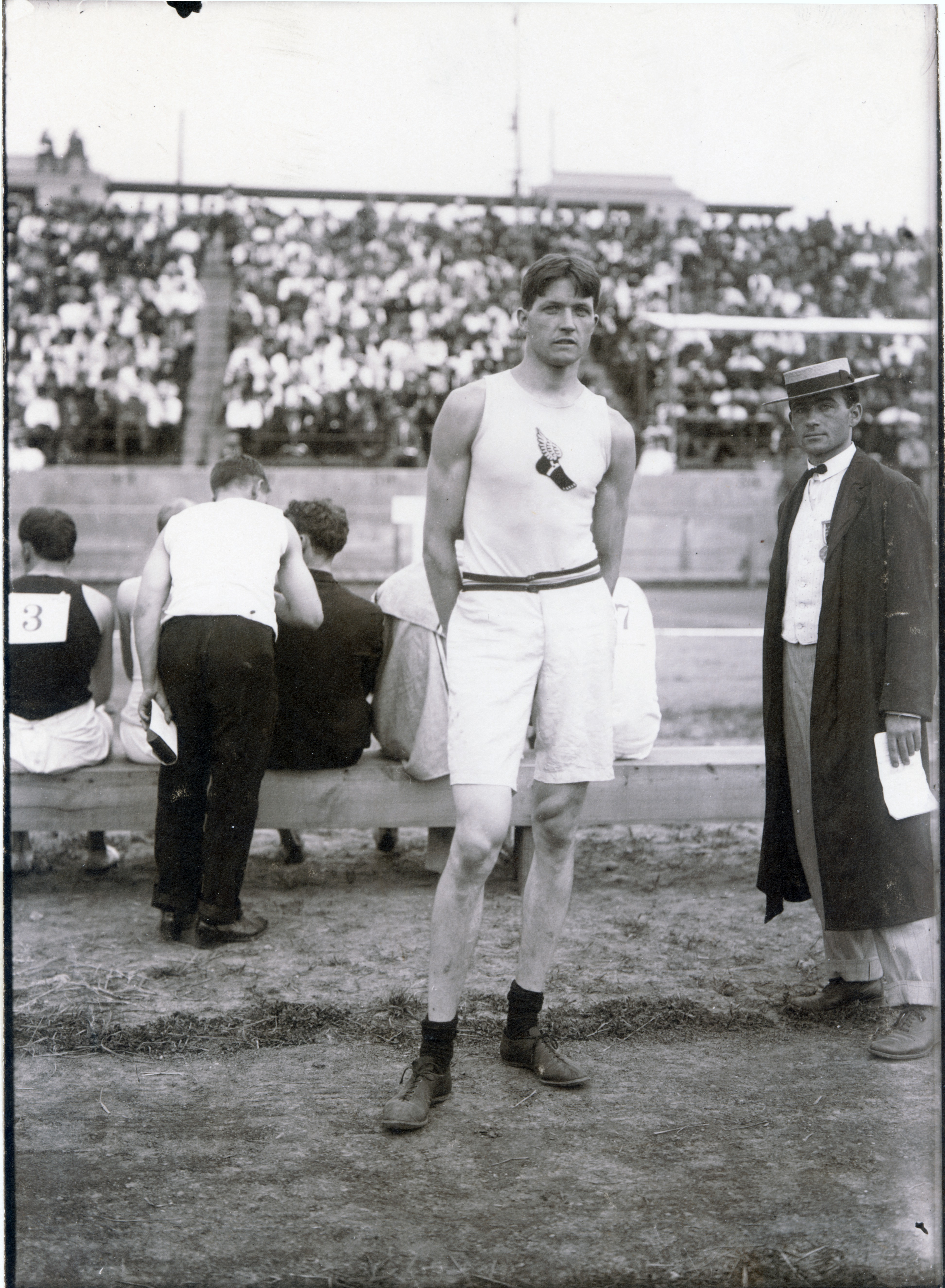 Ray Ewry of the New York Athletic Club, winner of the standing broad jump, standing high jump, and three standing jump events at the 1904 Olympics.Title: Ray Ewry of the New York Athletic Club, winner of the standing broad jump, standing high jump, and three standing jump events at the 1904 Olympics.